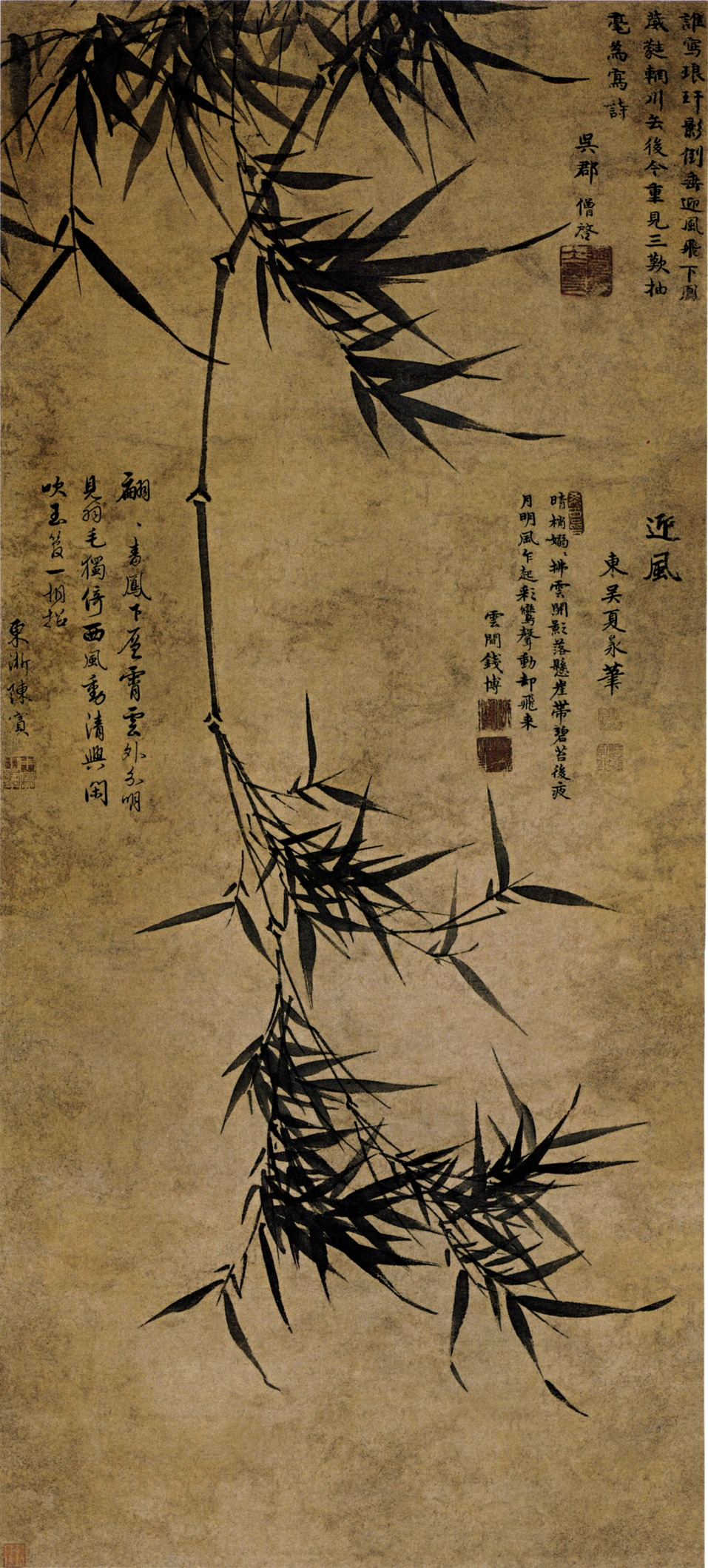 Bamboo in Wind, hanging scroll, ink on paper, 116 x 52.3 cm. Located at the Palace Museum, Beijing.